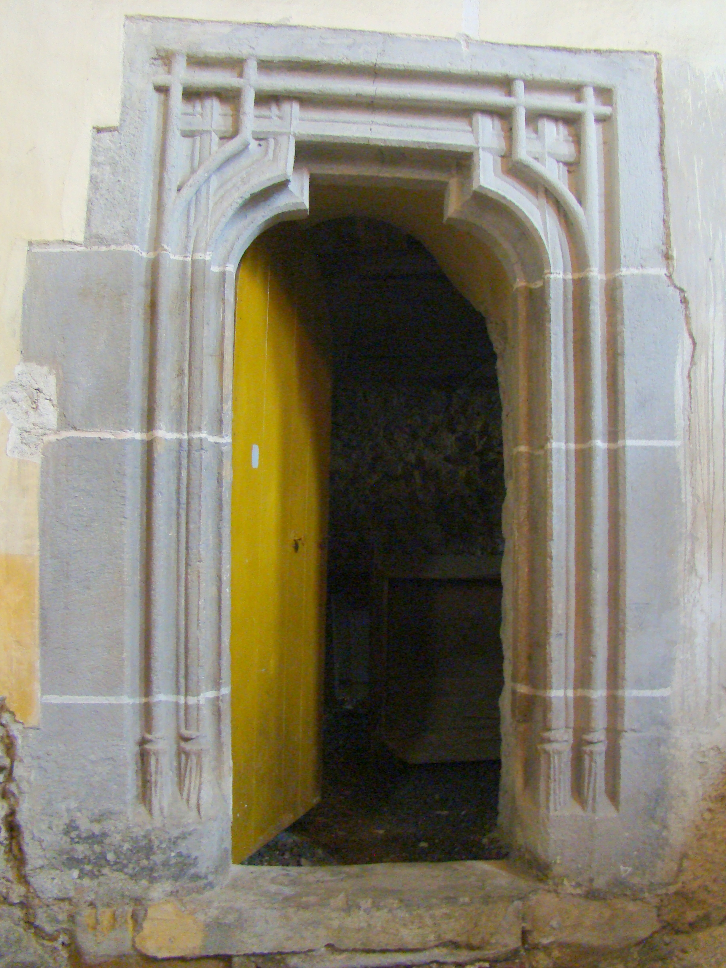 Lutheran church in Rupea, Braşov County, Romania